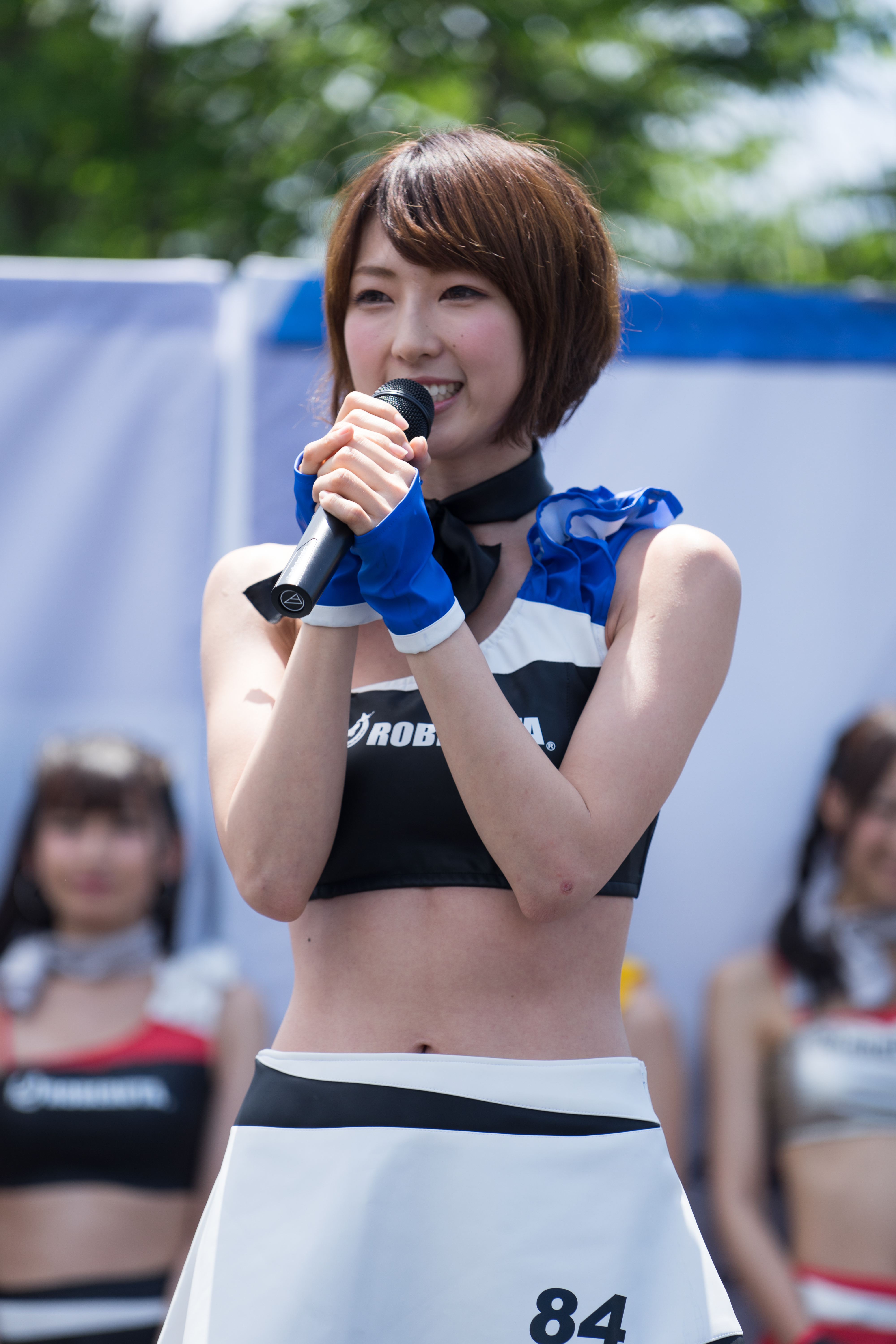 RED BULL AIR RACE CHIBA 2017-252.jpg